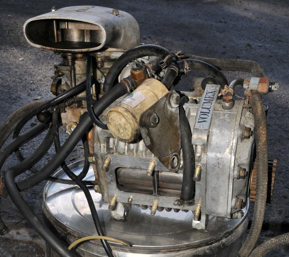 Volumex supercharger (Roots style) from Lancia Beta Volumex HPE